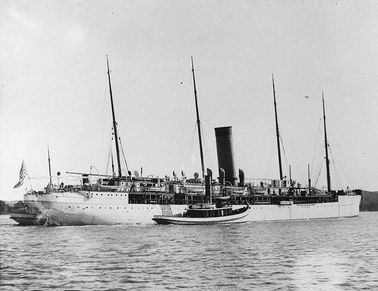 USS Hancock off Mare Island Navy Yard during the early 1900s. Ship was designated AP-3 in 1920 and IX-12 (Miscellaneous Unclassified) in 1921